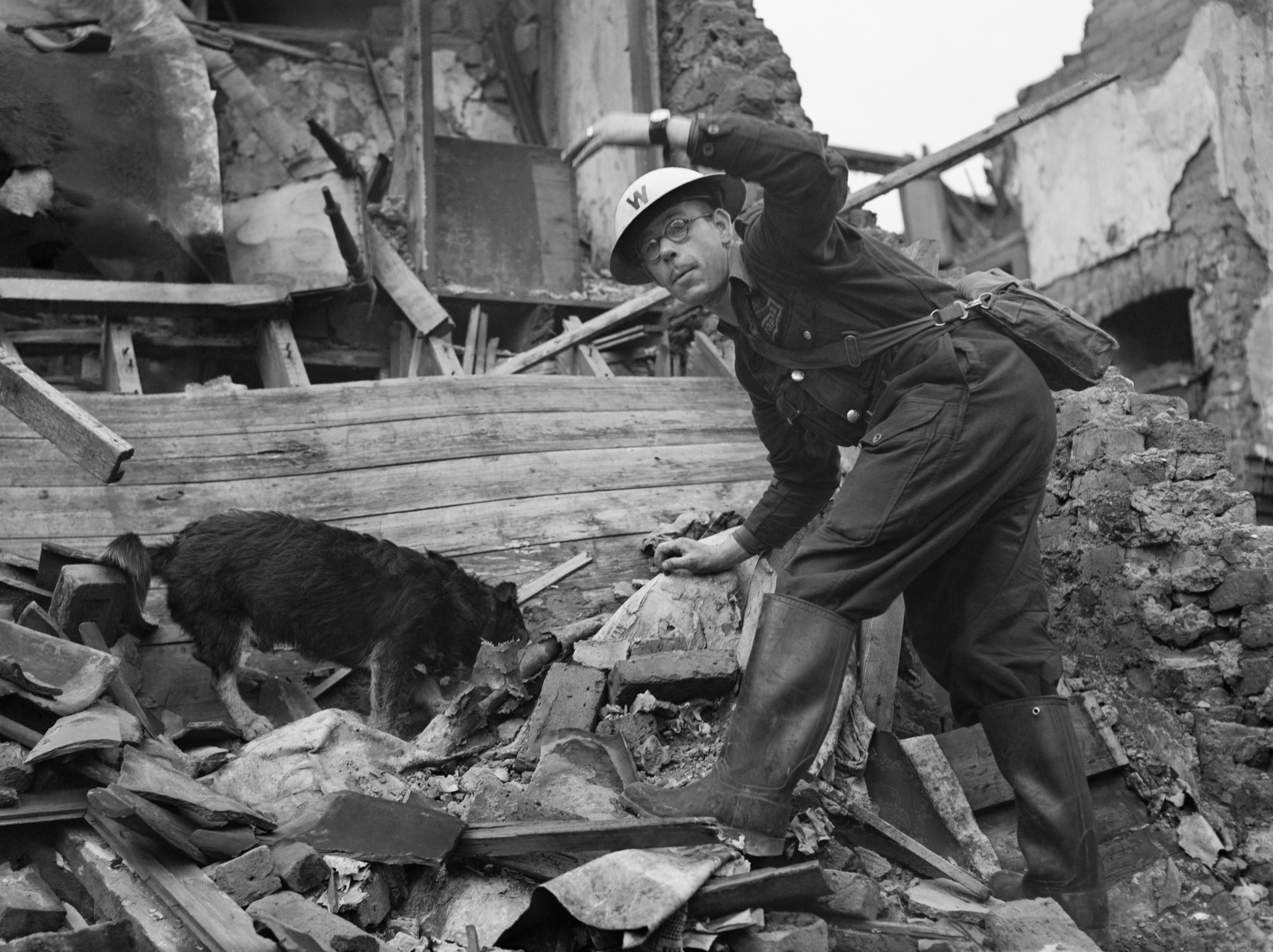 IWM caption :'Rip' the dog helps this Air Raid Precautions Warden to search amongst rubble and debris following an air raid in Poplar. The Warden signals for help from his colleagues to search the spot indicated by Rip.